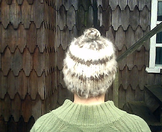 Traditional wool cap of Chiloe Archipelago, Chile